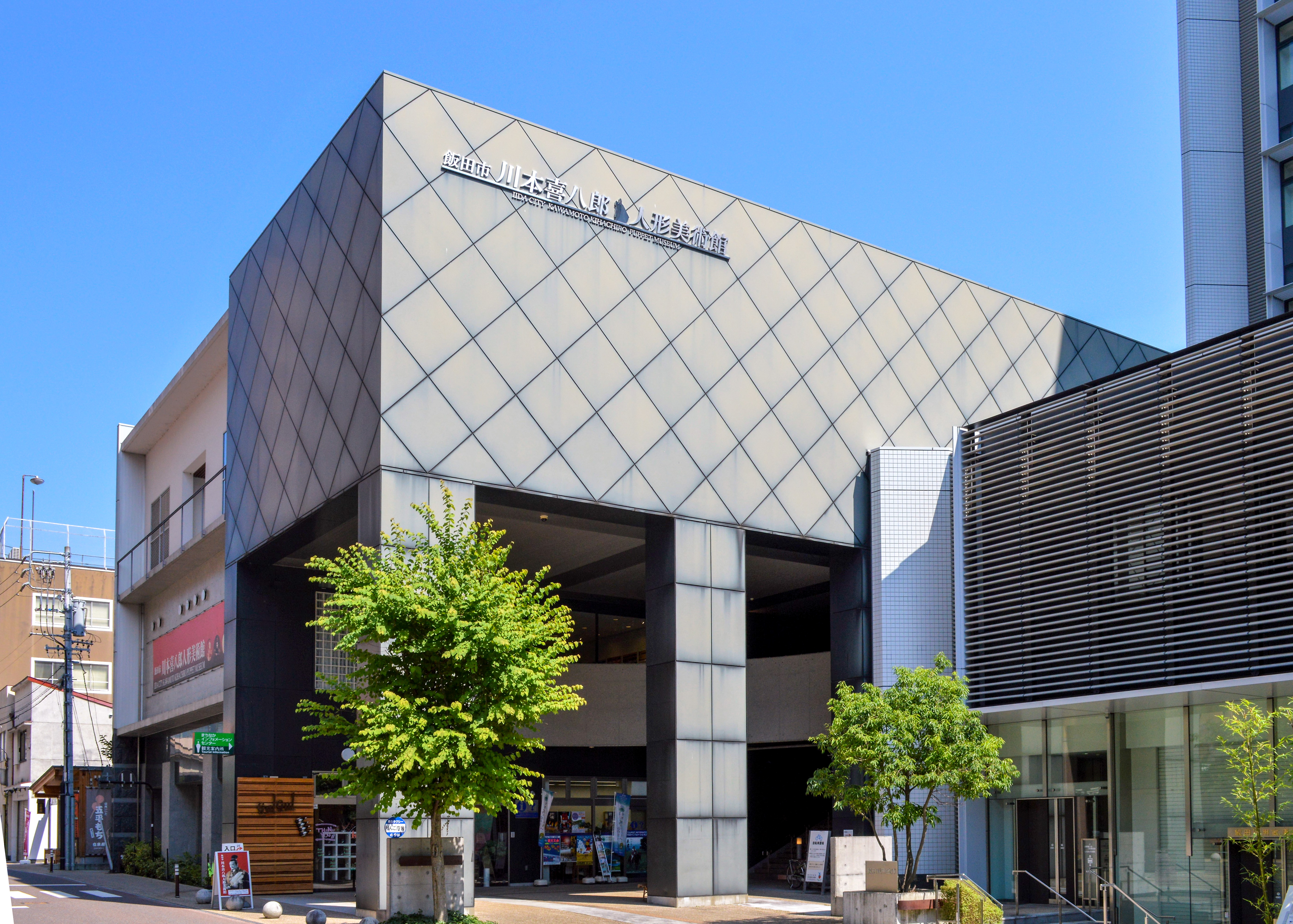 The Kawamoto Kihachiro Puppet Museum in Iida, Nagano Prefecture, Japan